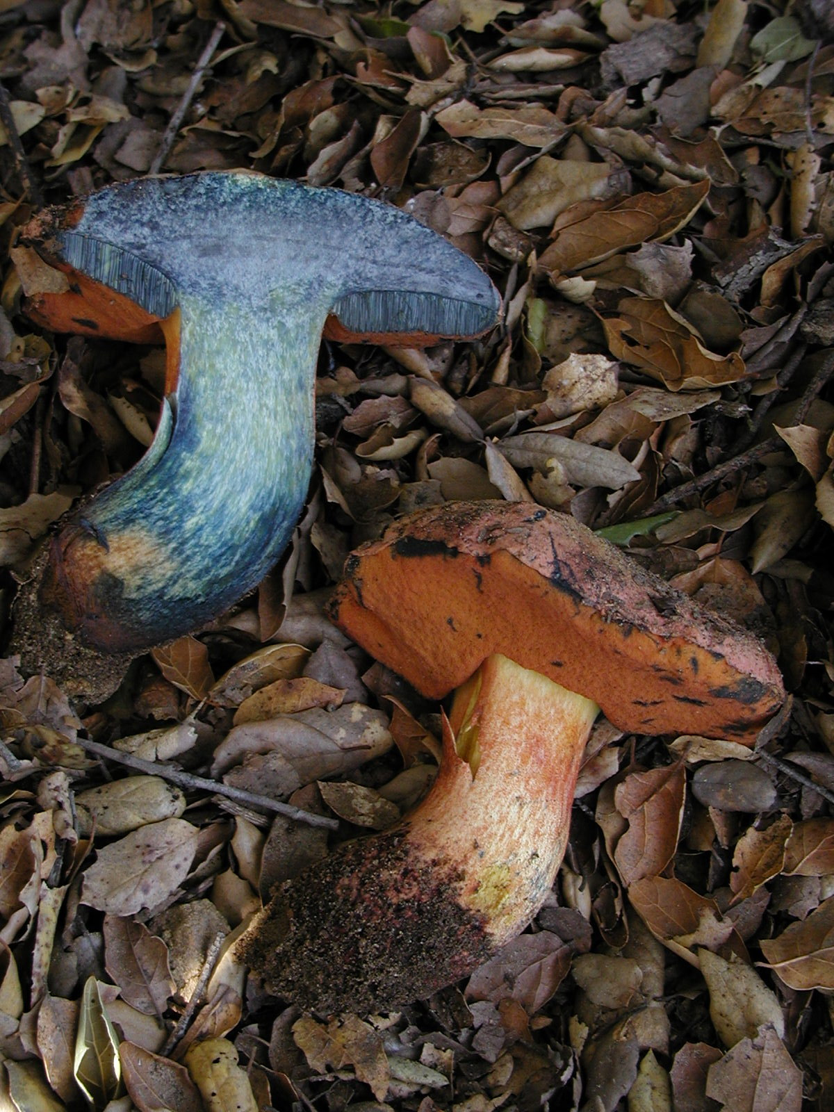 The mushroom Boletus amygdalinus (Thiers) Thiers. Photographed in Charmlee Park near Malibu, California. Notes: "Found during a Los Angeles Mycological Society foray."